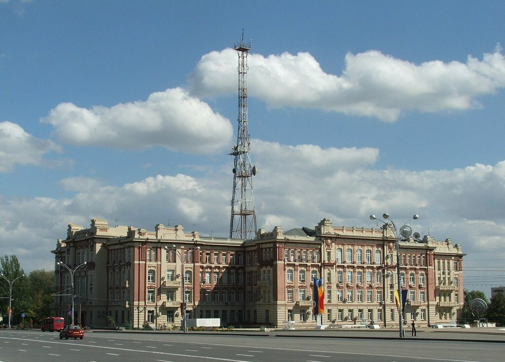 Direction of North Caucasus Railway, Rostov-na-Donu